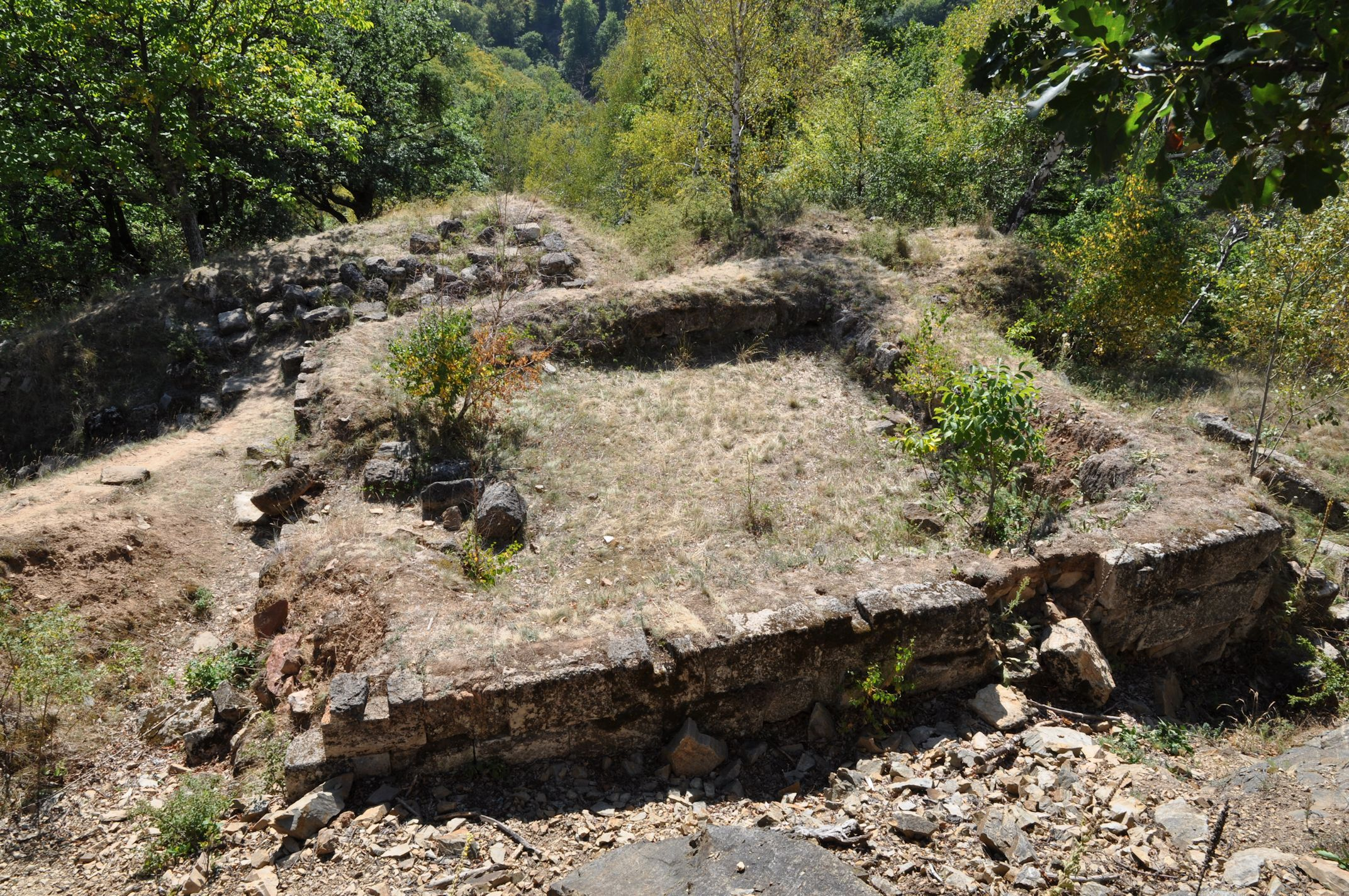 Dacian Fortress of Căpâlna, Alba County, România